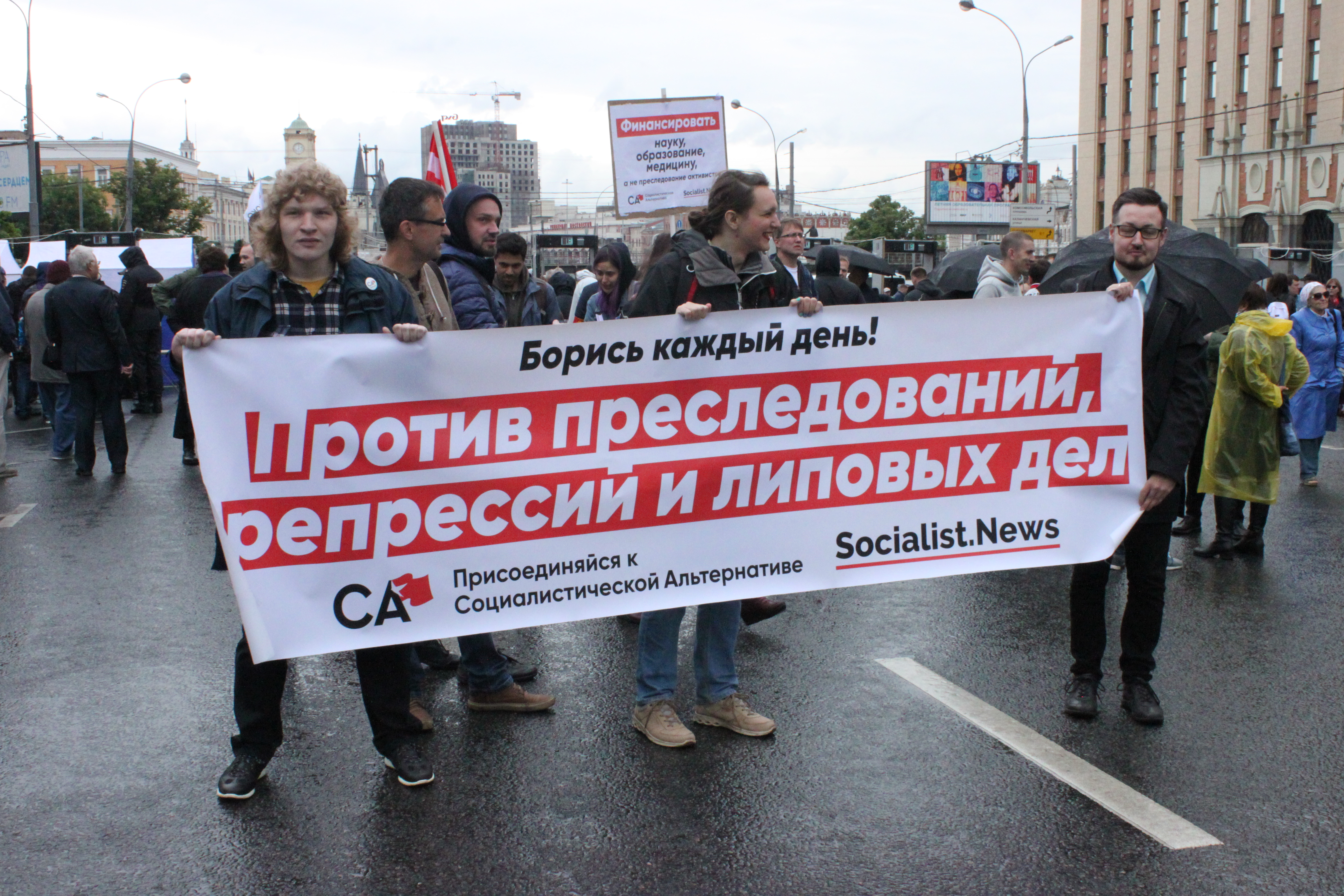 In Moscow on June 10 a rally "For a free Russia without repression and despotism" was held.